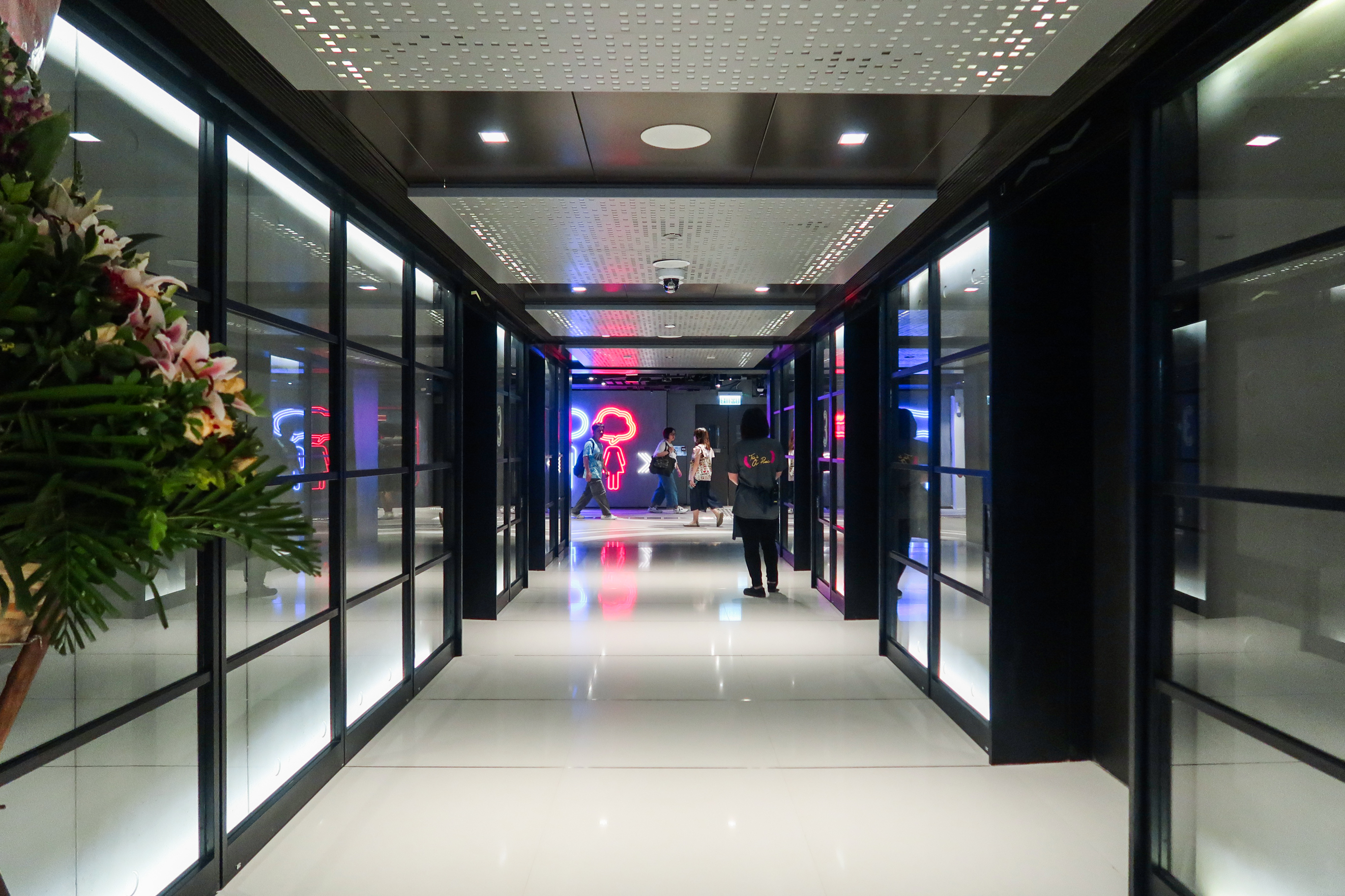 Nathan Road 700 Level 3 office lobby